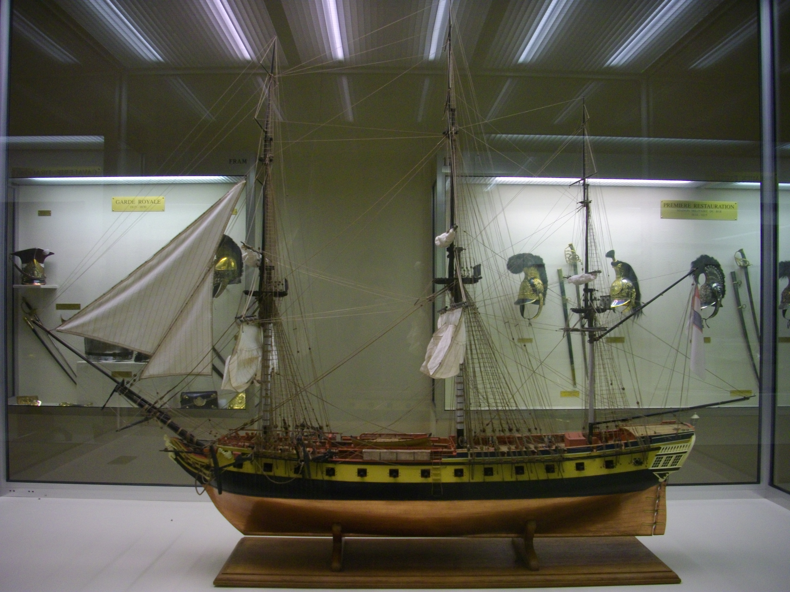 Saint Remi museum of Reims (Marne, France) ; miltary room, model of the Dryade